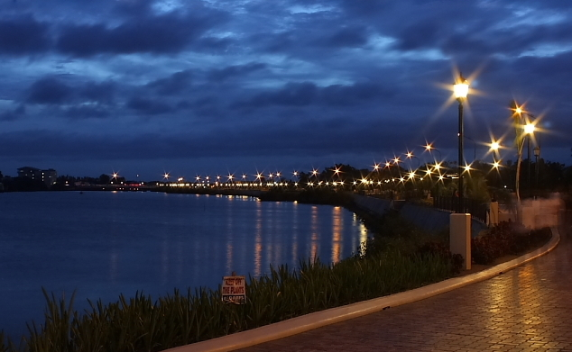 The picture shows Iloilo River on the background and a potion of the Iloilo River Esplanade on the foreground.